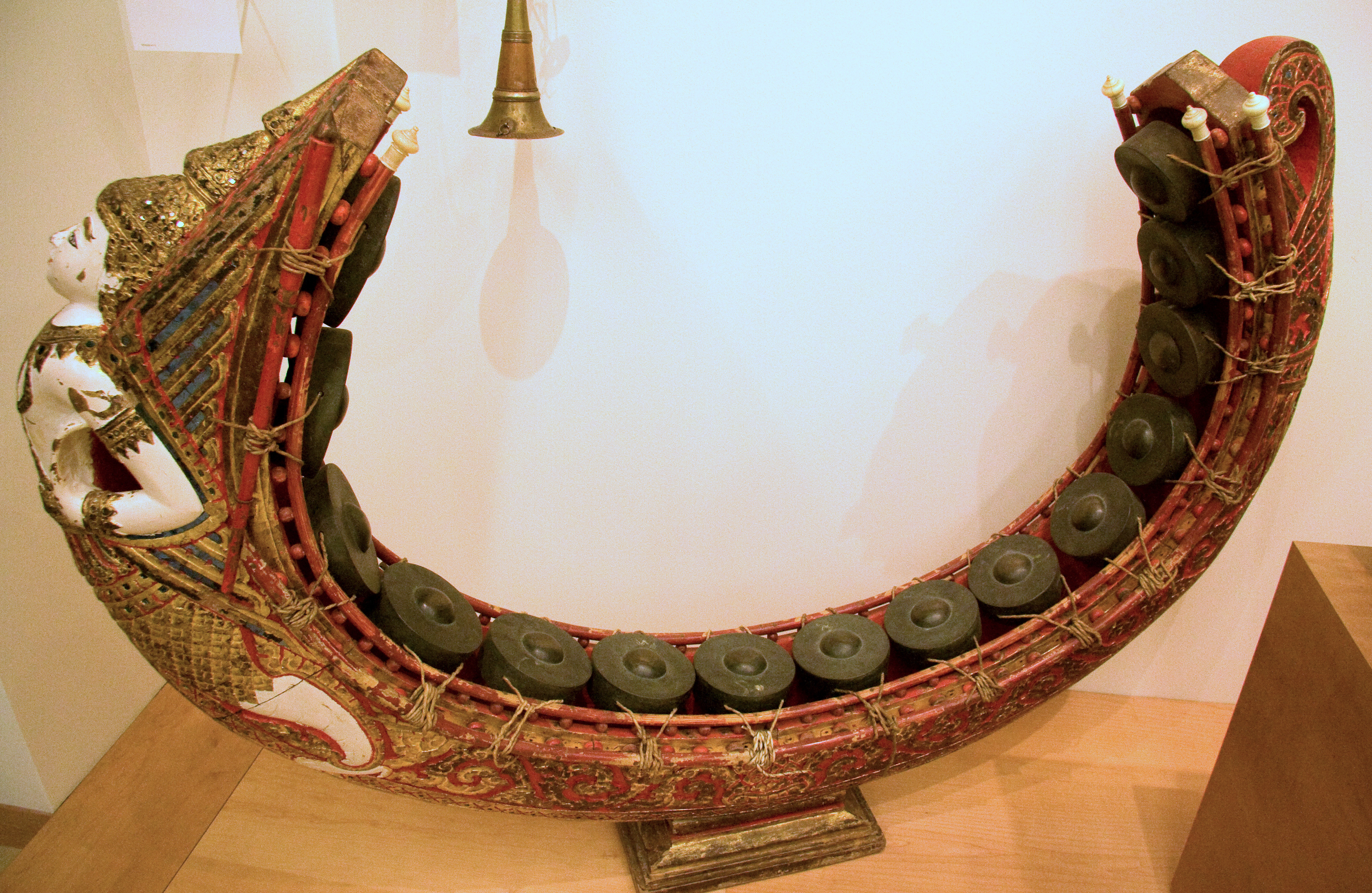 Instrument of Cambodia and Thailand. A type of gong chime. This particular example is at the Museum of Musical Instruments in Phoenix, Arizona.